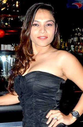 South Actress Ragasiya at TGIF anniversary bash